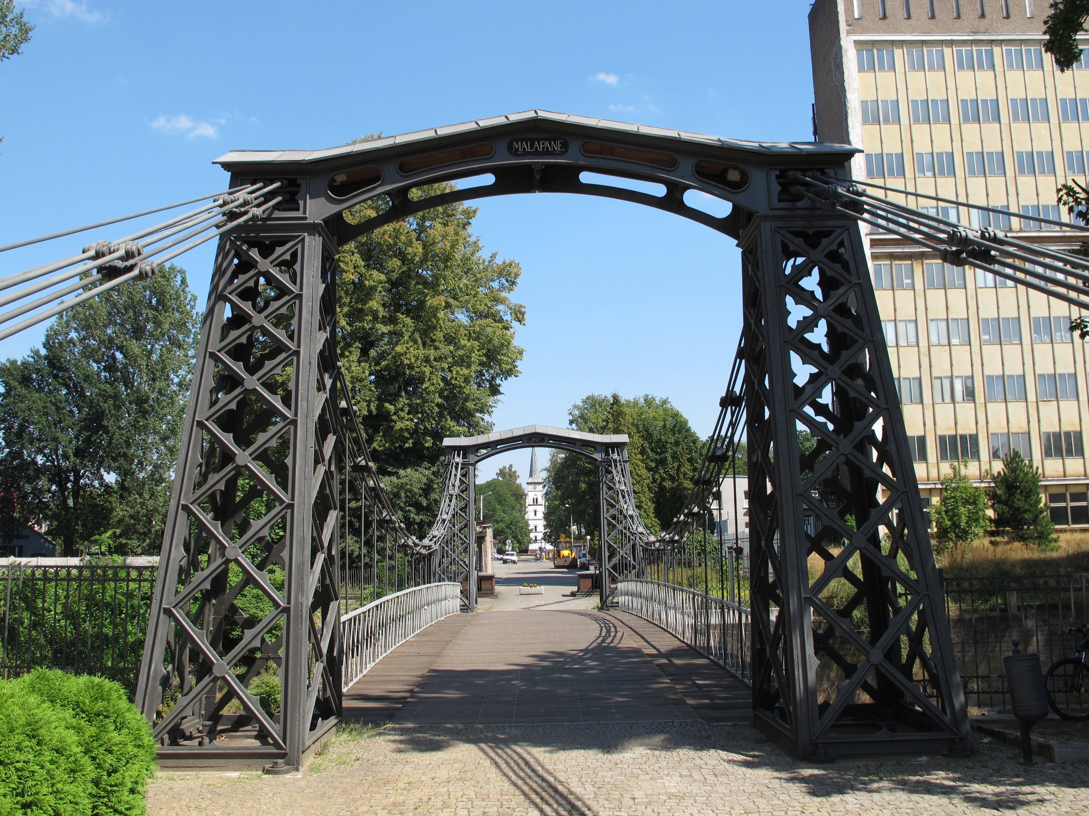 Ozimek - chain sunspension bridge